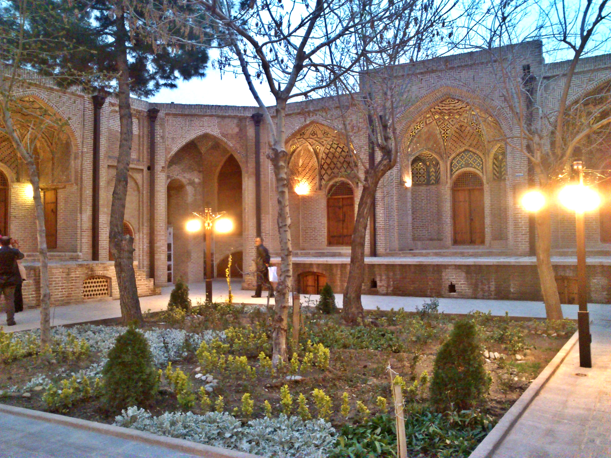 carvansarai of sadosaltaneh (sadosaltaneh lnn) _ qazvin city _ iran